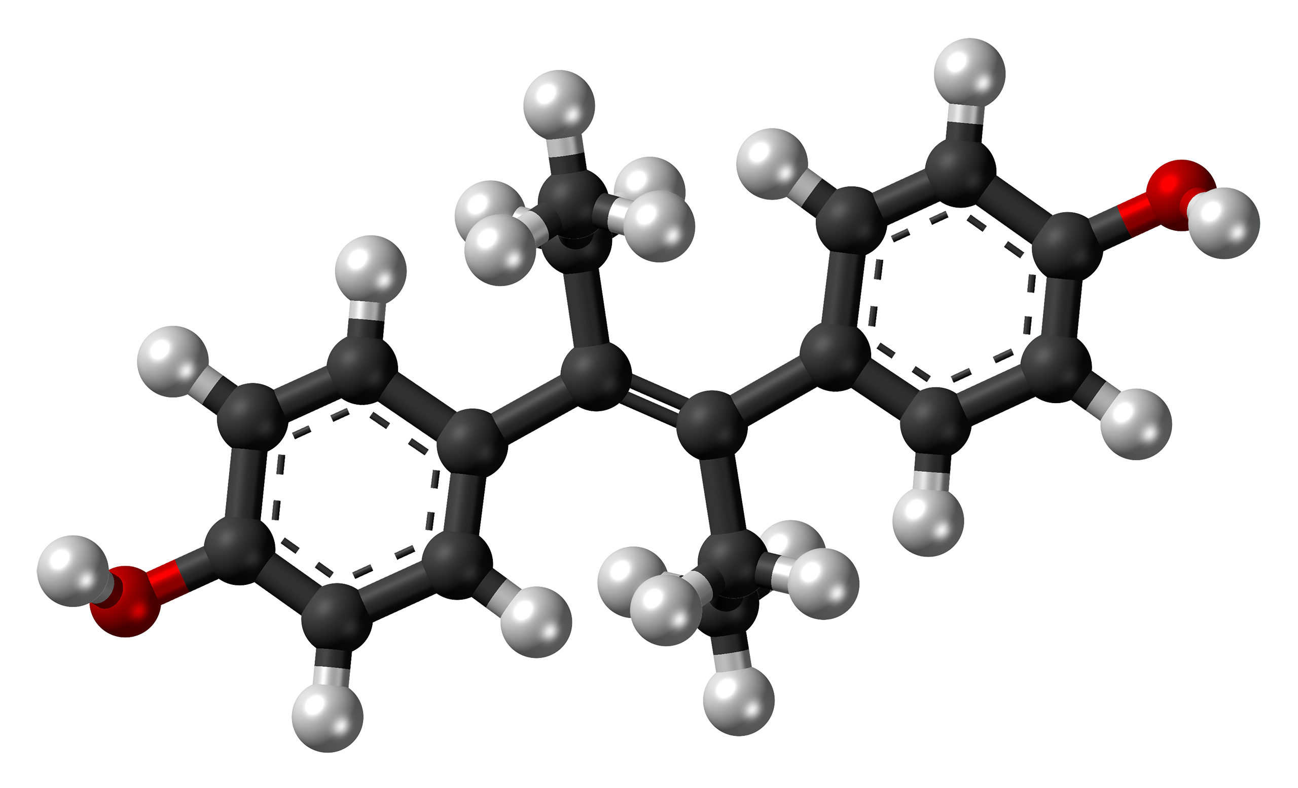 Ball-and-stick model of the diethylstilbestrol molecule, also known as stilbestrol, a nonsteroidal estrogen which is mostly no longer used. Color code: Carbon, C: black Hydrogen, H: white Oxygen, O: red